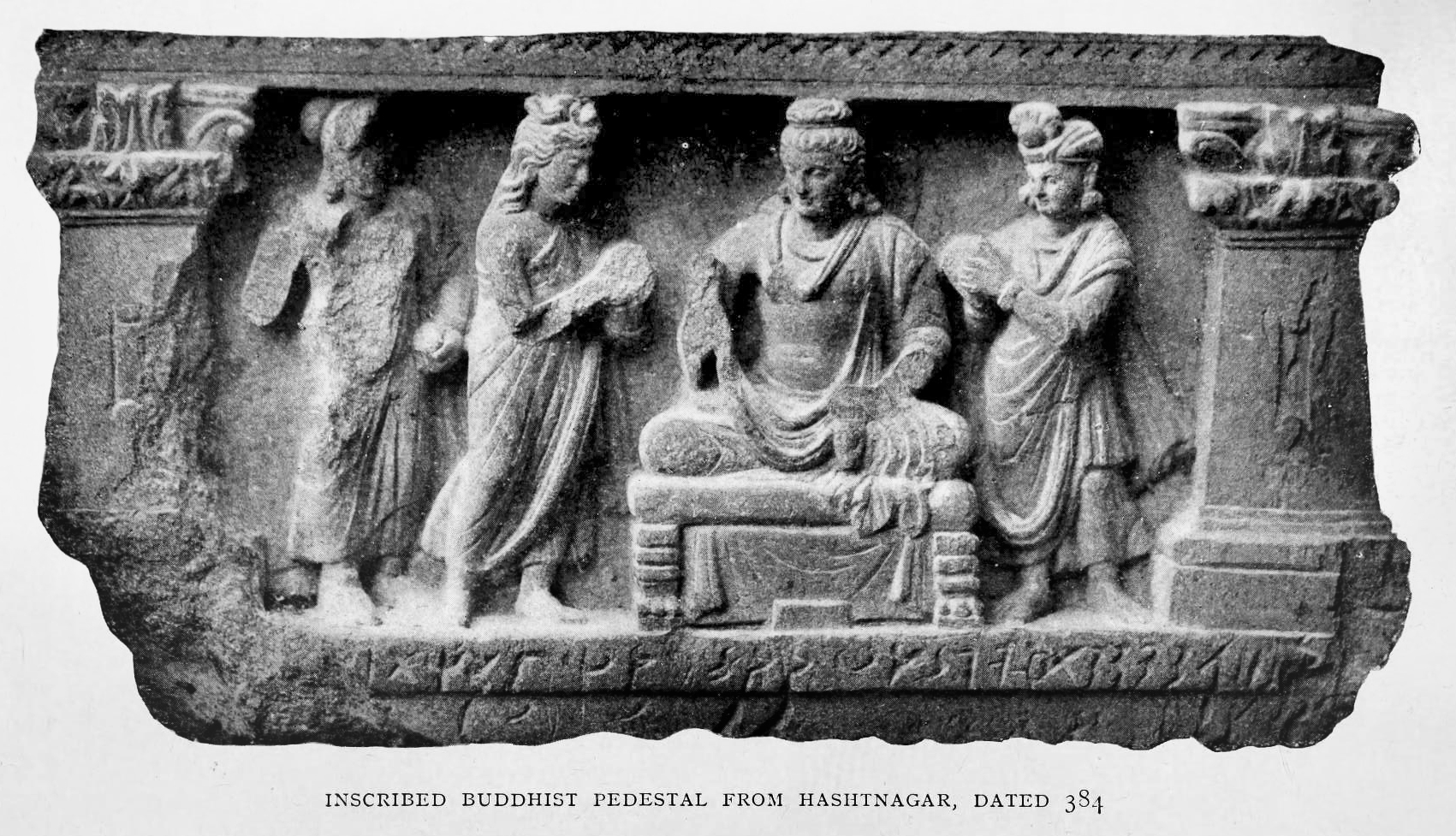 Hashtnagar Buddha piedestal with Year 384 inscription; The inscription in Kharoshthi reads: "sam 1 1 1 100 20 20 20 20 4 Prothavadasa masasa divasammi pamcami 4 1" ("In the year 384, on the fofth, 5, day of the month Prausthapada").p.37